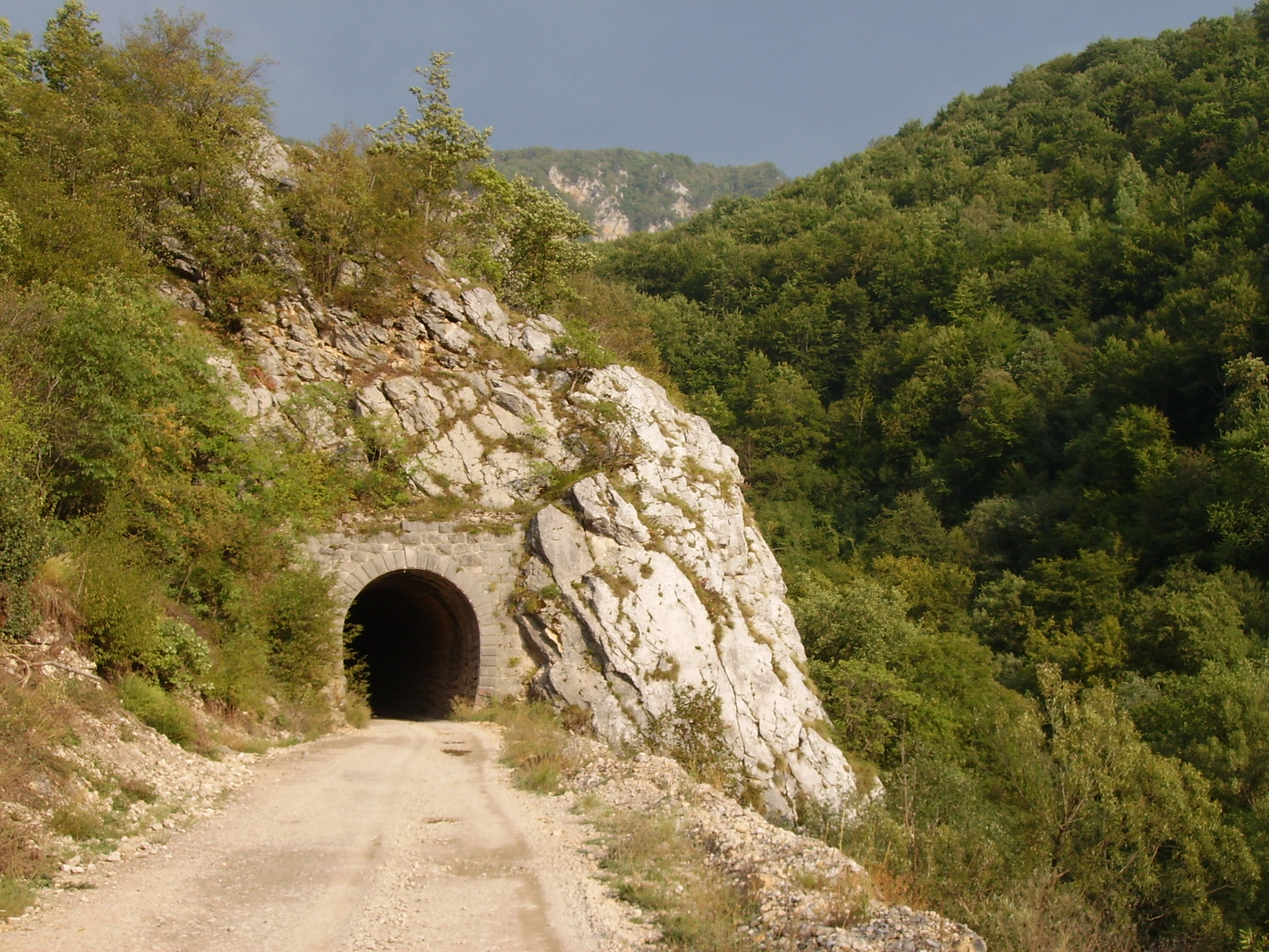 Bosnia, the unpaved Magistral road Nr. 5 between Pale and Ustiprača (Gorge of River Prača) runs through several tunnels of the former narrow gauge "Ostbahn" railway.